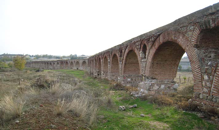 The old aqueduct in the north of Skopje